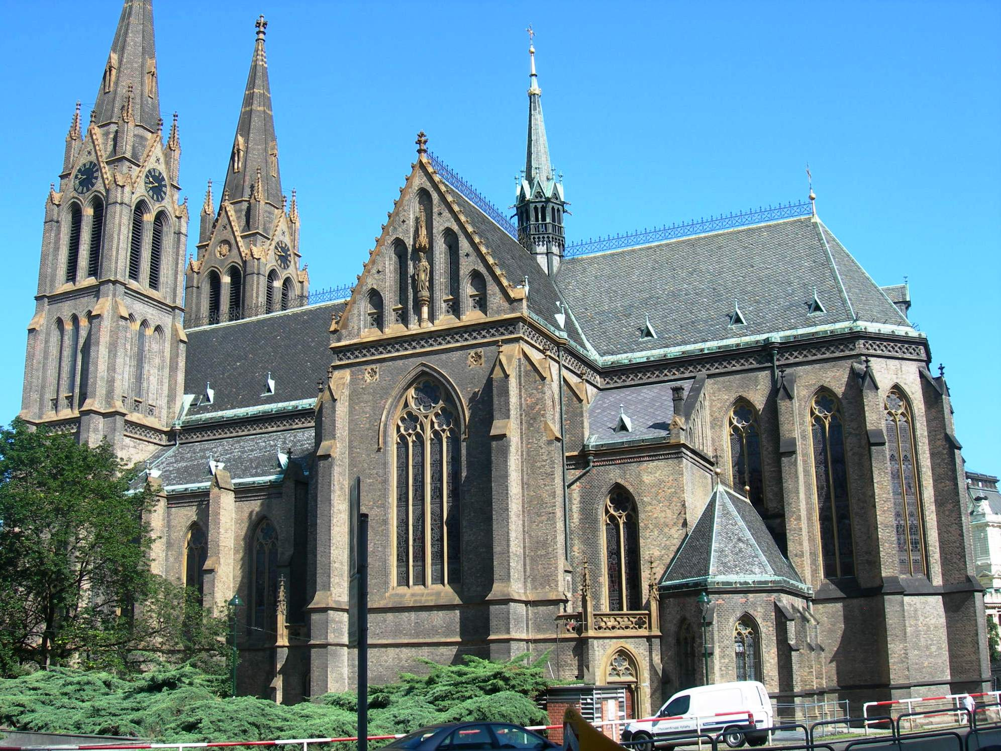 Prague Vinohrady, church of St Ludmila from the south